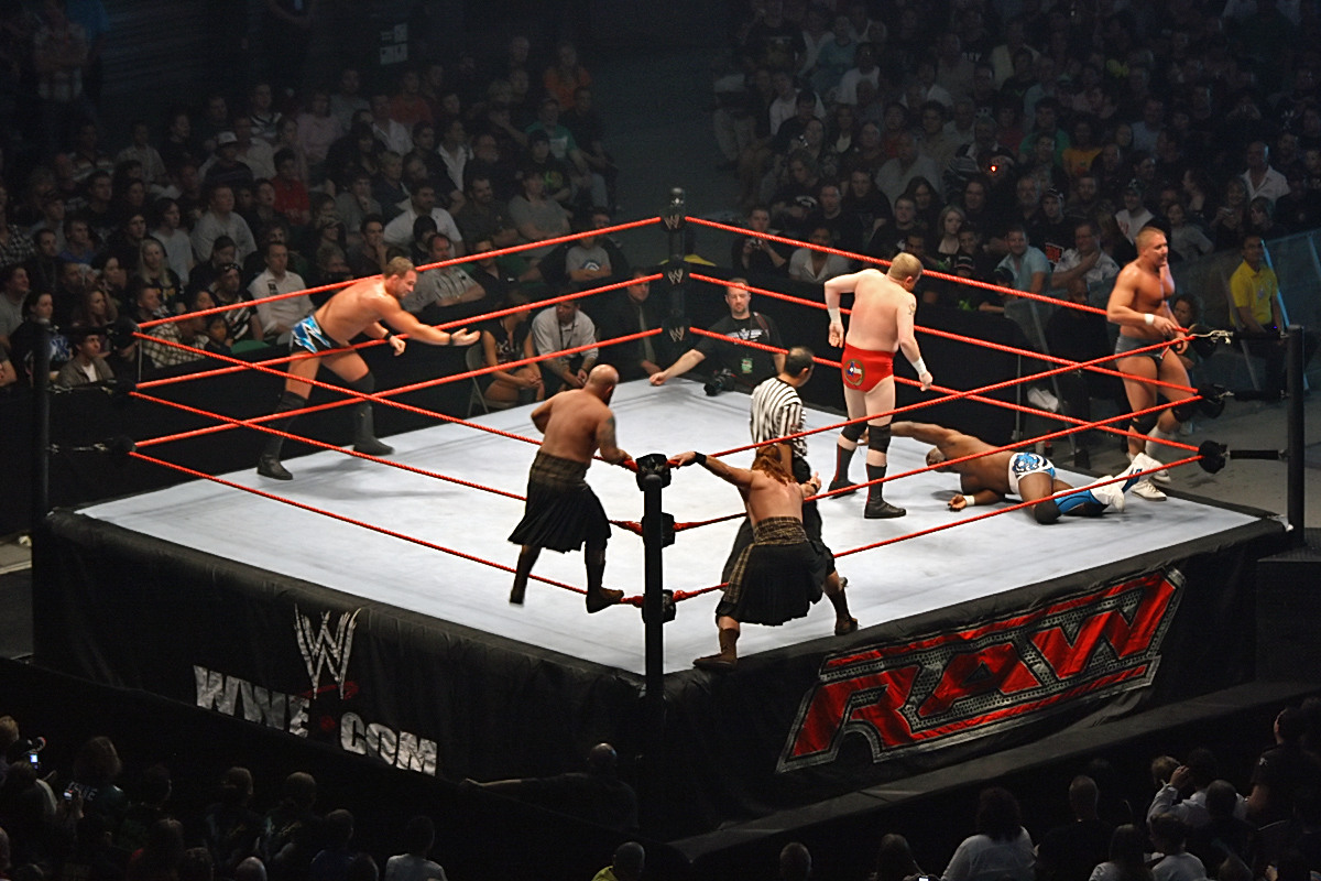 A triple threat WWE World Tag Team title match in progress. Taken during the WWE Raw - Survivor Series Tour, at Rod Laver Arena, Melbourne Park, Melbourne, Australia. This was a triple threat match for the tag titles, with Lance Cade and Trevor Murdoch (Rhodes) as champions against The Highlanders (Robbie and Rory McAllister) and The World's Greatest Tag Team (Shelton Benjamin and Charlie Haas). Benjamin (on the mat) has been isolated in the corner of champions Cade and Murdoch (in the ring), well away from his partner Haas. Both Highlanders are in their corner, but can be tagged in by either of the other teams. Cade and Murdoch won the match when Cade pinned Robbie following a Benjamin superplex on Robbie.